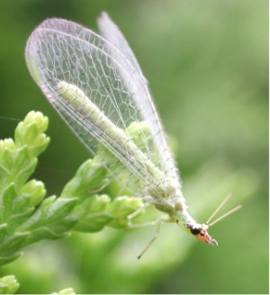 Unidentified Chrysopidae (Green Lacewing) Image copyleft: Image taken by me, released under GFDL Pollinator 03:48, Nov 9, 2004 (UTC)